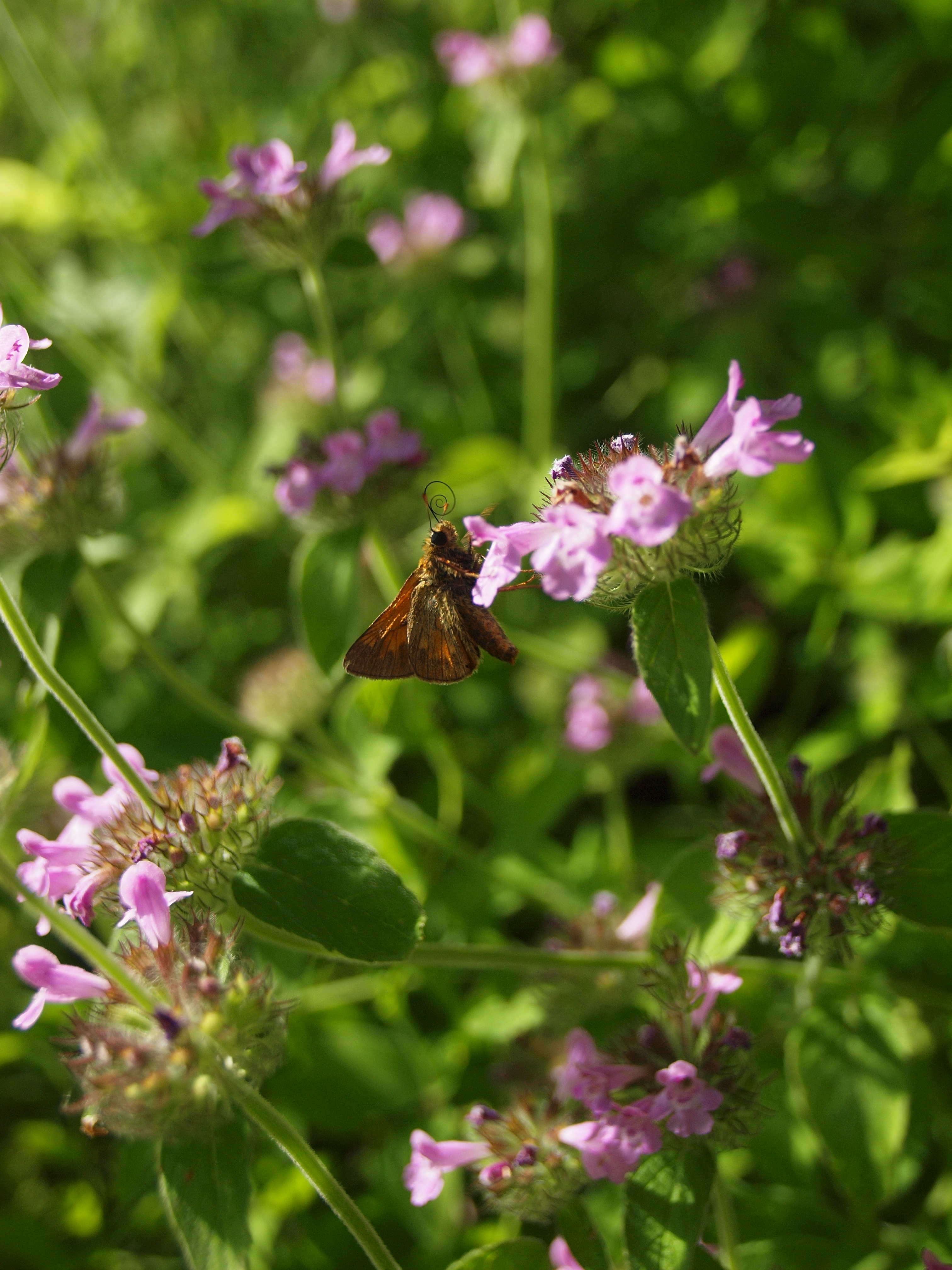 Clinopodium vulgare (Lamiaceae) with Ochlodes sylvanus (Hesperiidae), Mt. Orjen, Bijela gora Montenegro